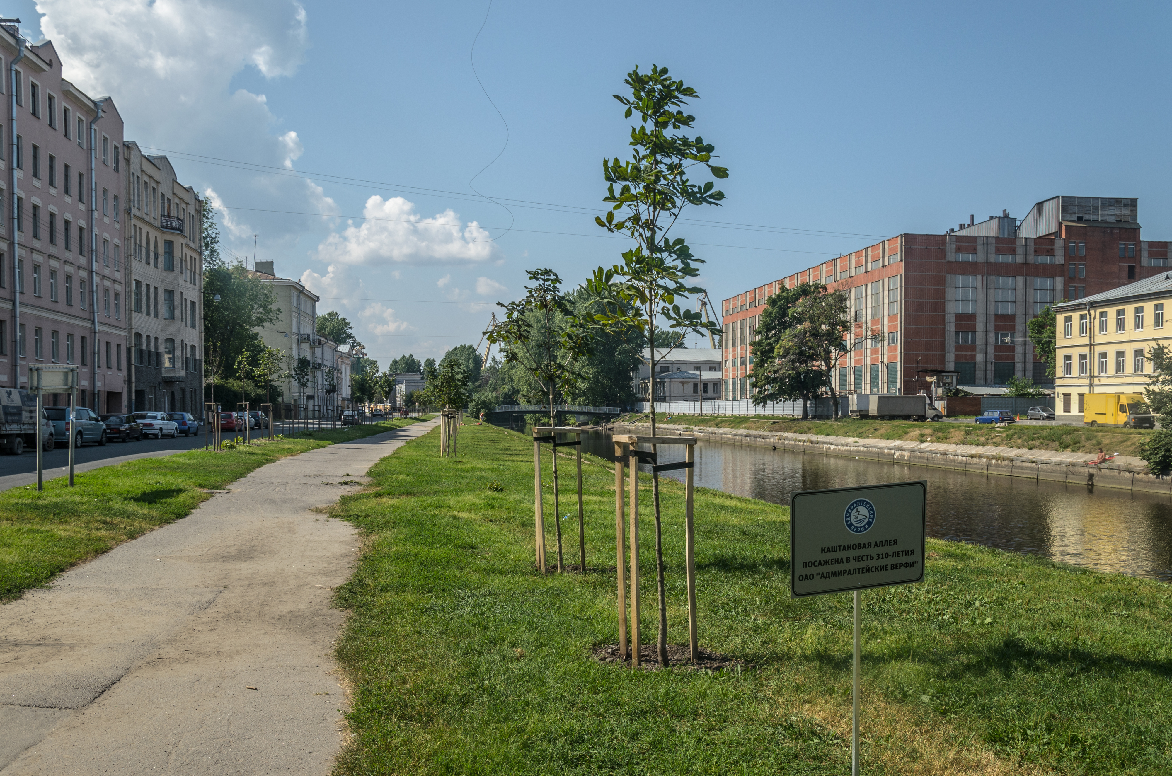 Pryazhka River in Saint Petersburg